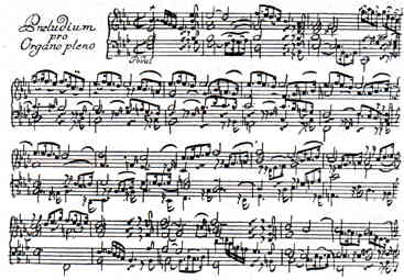 Autograph of the prelude in E-flat major BWV 552 by Johann Sebastian Bach from the 3rd part of the Clavierübung.